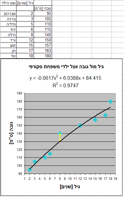 Age Vs. Hight of children of a certain family. An example for linear regresion